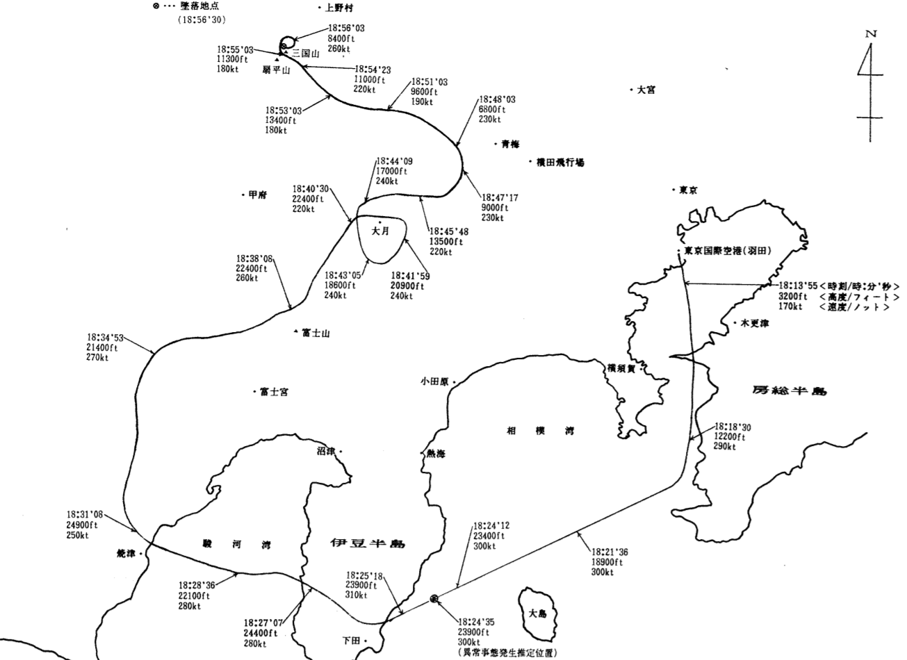 Japan Airlines Flight 123 route from accident report